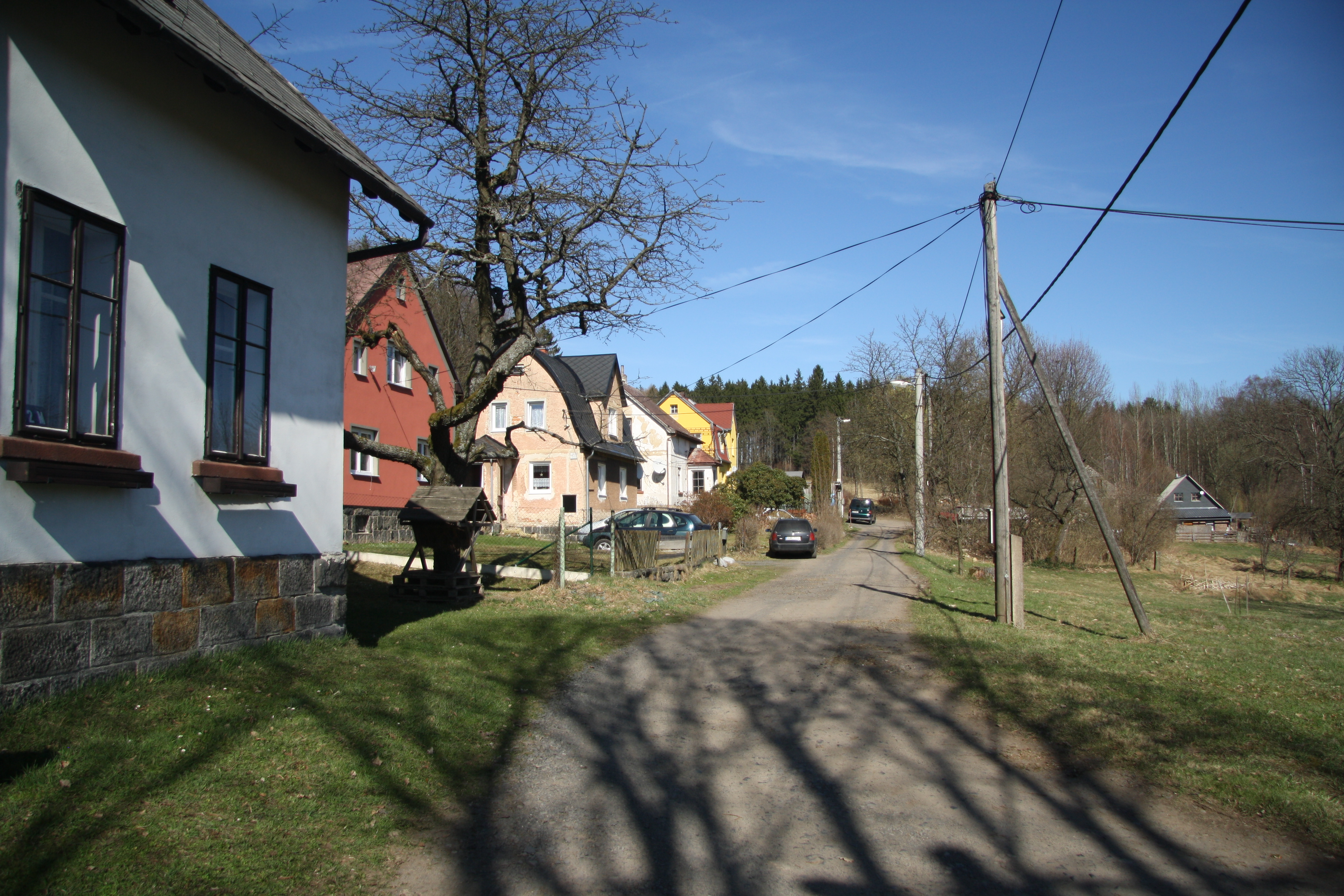 Center of Mikulášovičky, Mikulášovice, Děčín District.